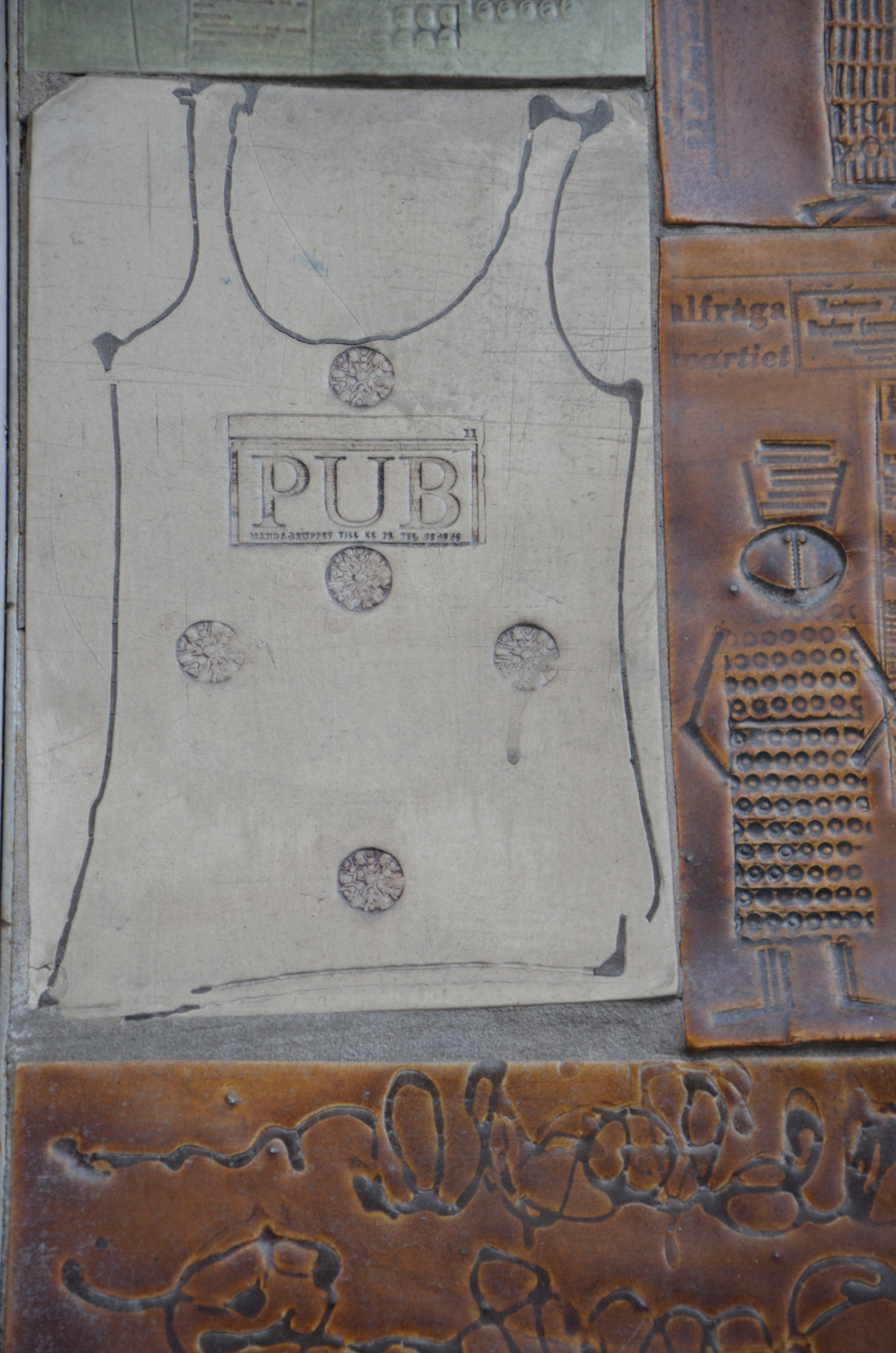 Cheramic tiles on pillar, PUB, Stockholm 1966, detail, by Bengt Berglund